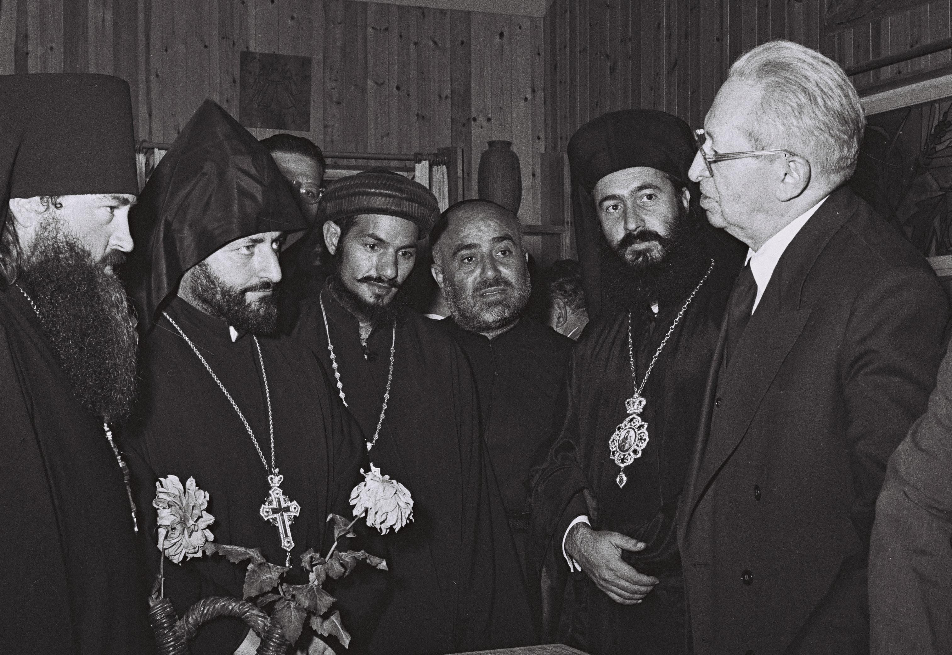 President Ben Zvi with the heads of the Greek orthodox, Armenian, Coptic, Maronite and Russian churches in Israel.